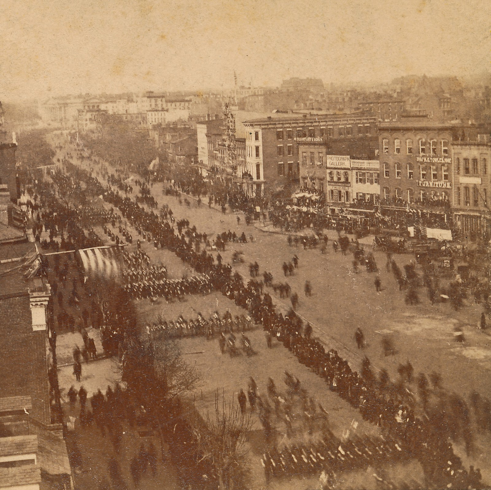 View of the 1873 inaugural parade in Washington, D.C. Taken from a building on the southeast corner of 10th Street and Pennsylvania Avenue, looking up Pennsylvania Avenue towards the Treasury building.